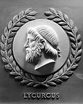 Lycurgus marble bas-relief, one of 23 reliefs of great historical lawgivers in the chamber of the U.S. House of Representatives in the United States Capitol. Sculpted by C. Paul Jennewein in 1950. Diameter 28 inches.